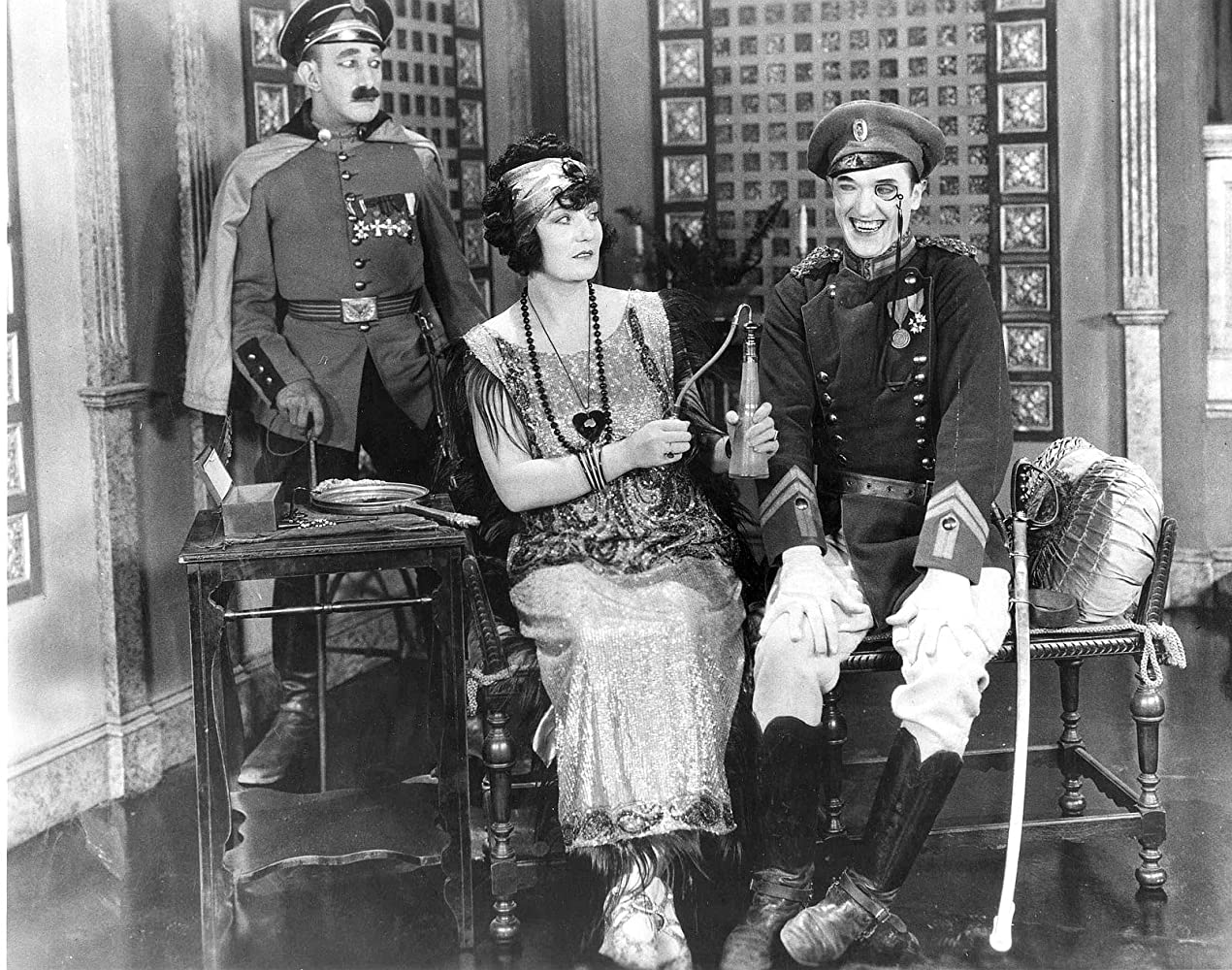 James Finlayson (left), Mae Laurel, and Stan Laurel in Rupert of Hee Haw (1924).